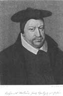 Jan Vermeulen, (or Johannes, Jean) also known as Molanus (Lille 1533 - Louvain 1585 - both then in the Spanish Netherlands) was an influential Counter Reformation Flemish Catholic theologian of Louvain University, where he was Professor of Theology, and Rector from 1578. He was a priest and canon of St. Peter's church in Louvain. Among many other subjects he wrote on the proper content of religious images, taking a very severe line in his De Picturis et Imaginibus Sacris ("Treatise on Sacred Images") of 1570. He was lead editor of an edition of the works of Saint Augustine, and wrote a history of Louvain.